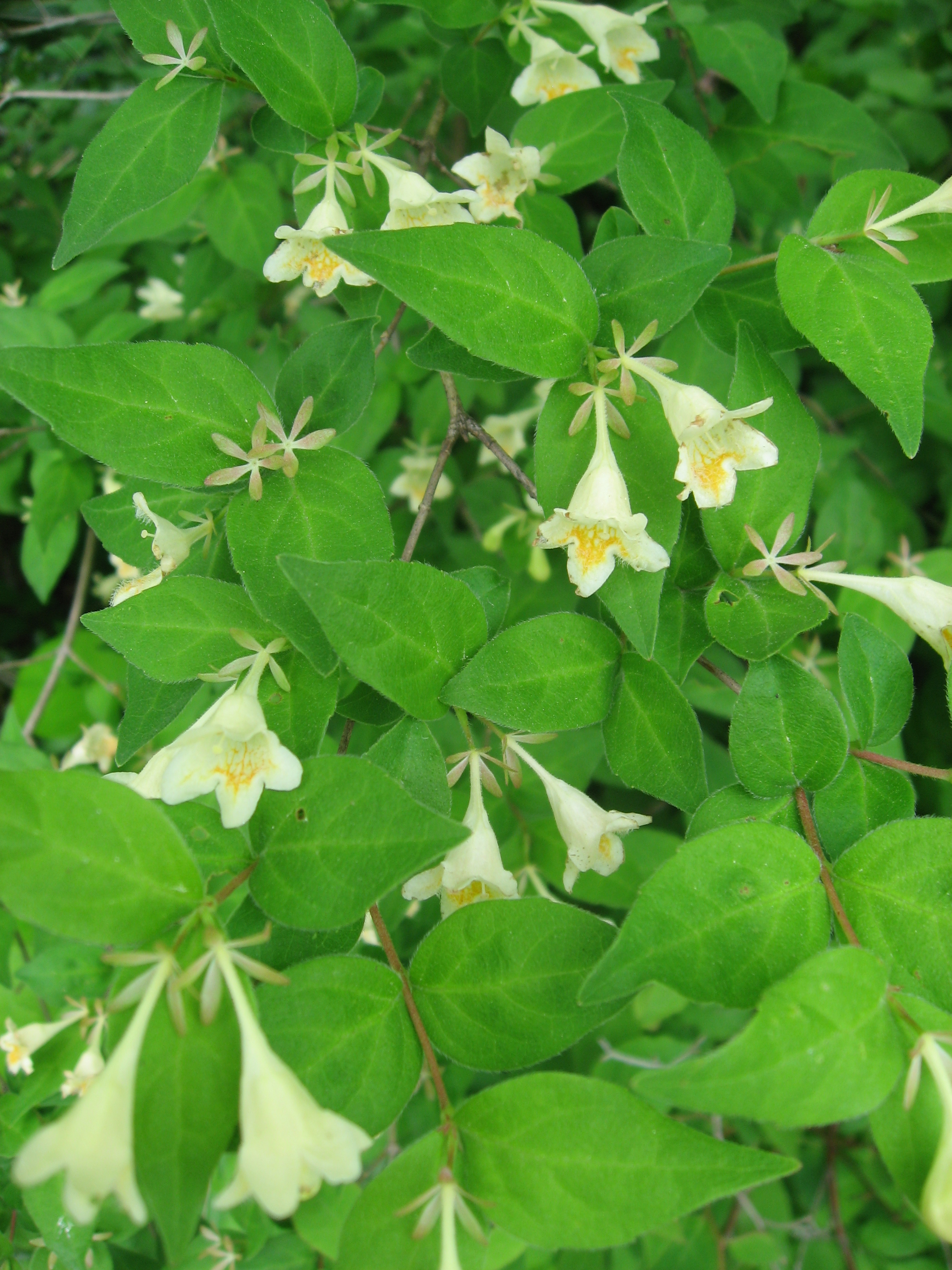 Abelia spathulata, Aizu area, Fukushima pref., Japan